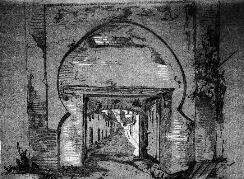 Salida de la ciudad medieval de Sevilla, hasta que en la Edad Moderna el solar exterior de esta puerta de la ciudad se convirtió en tierra de labor vallada, y perteneciente a la huerta del Real Alcázar de Sevilla